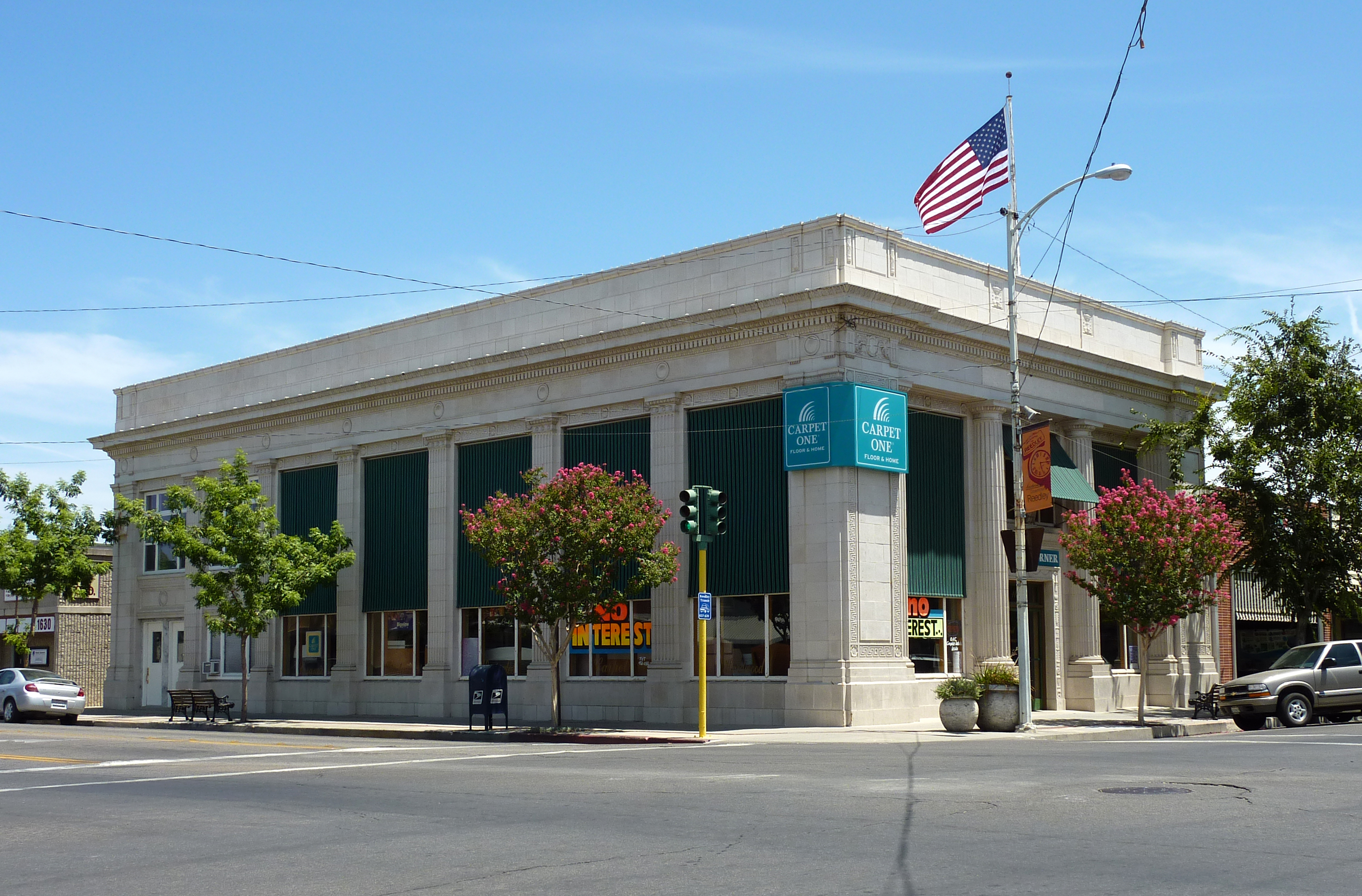 Reedley National Bank — Reedley, Fresno County, California, USA.